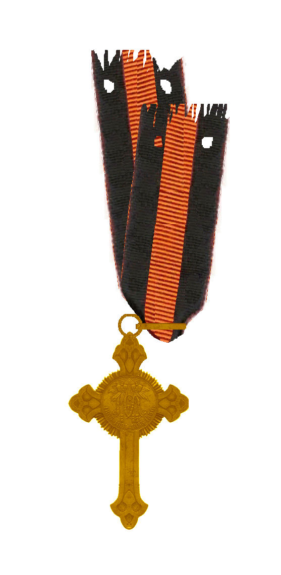 Kruis voor de Aalmoezenier tijdens de Krimoorlog 1853-1856 Cross for Clergy during the Crimean Was Imperial Russia